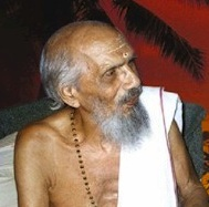 Yoga Master, Author and Journalist Yogacharya Govindan Nair